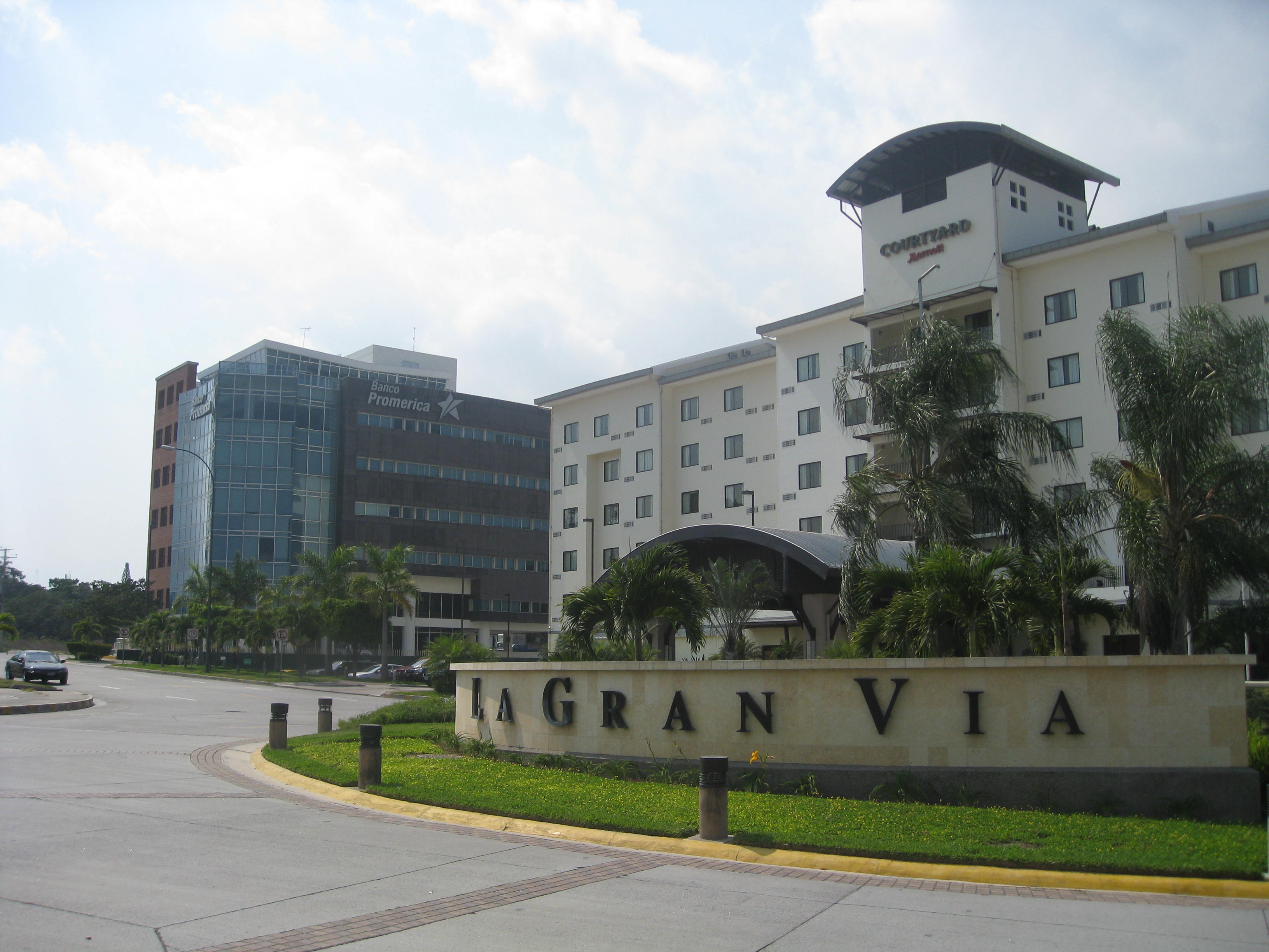 Hotel and Bank Headquarter at San Salvador